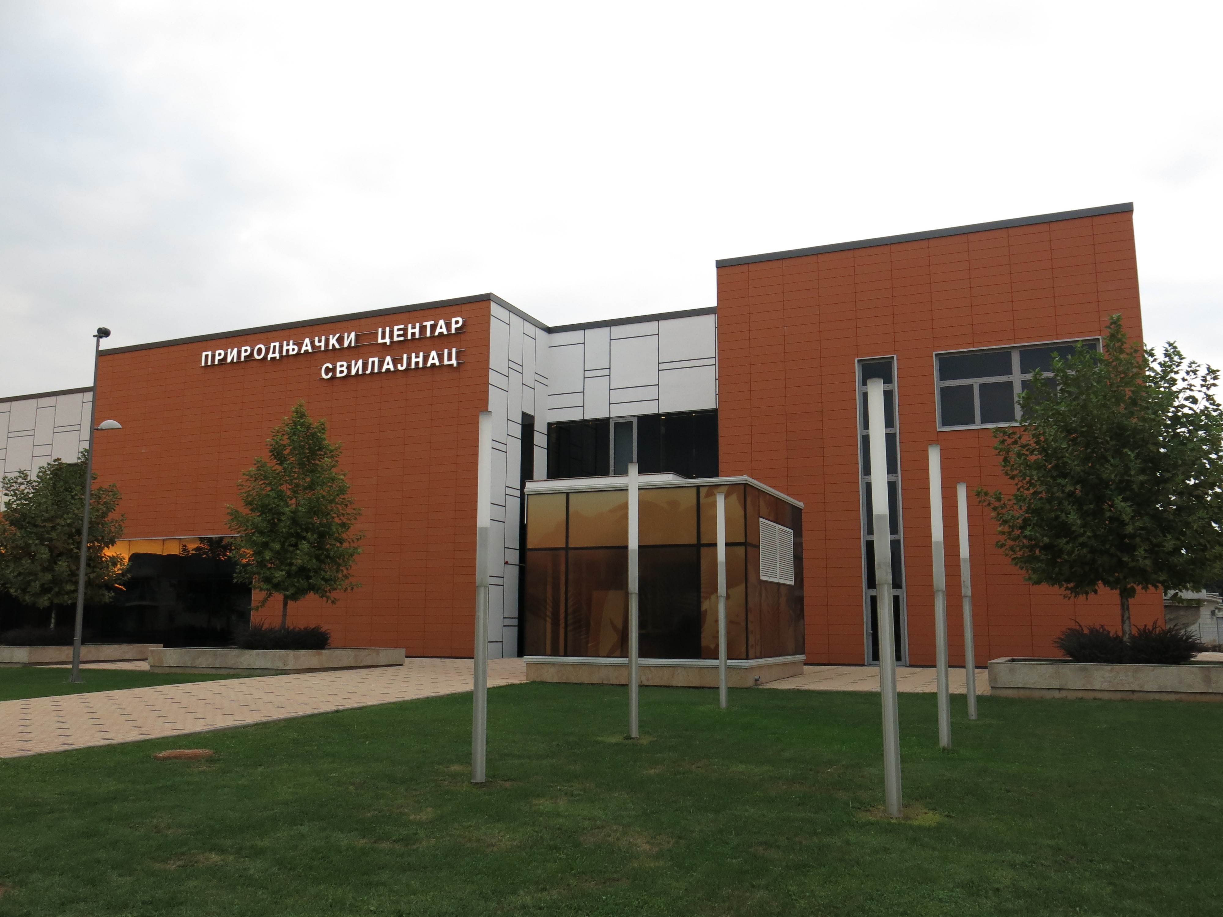 Natural History Center of Serbia in Svilajnac